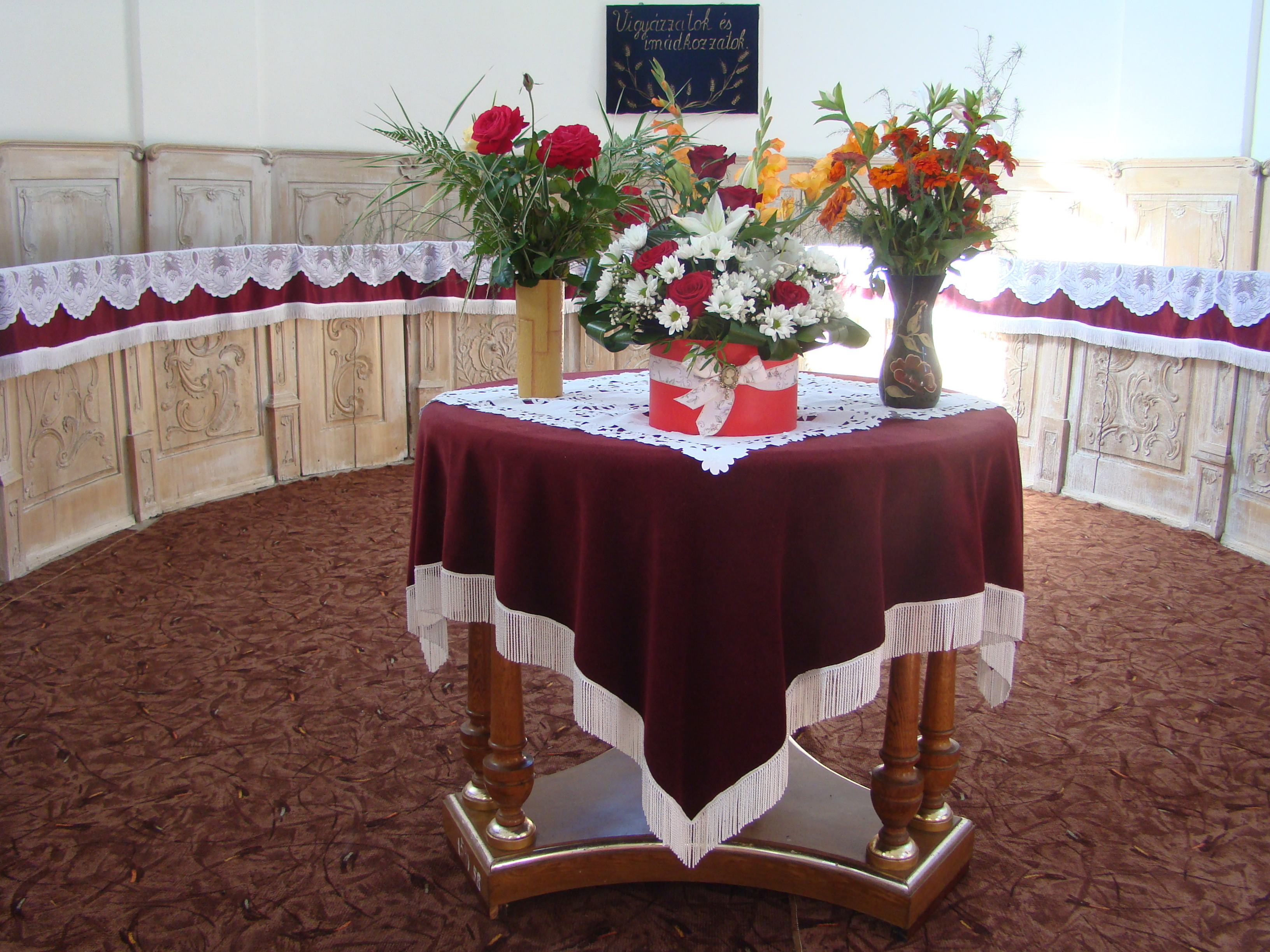 Reformed church in Șieu, Bistrița-Năsăud county, Romania